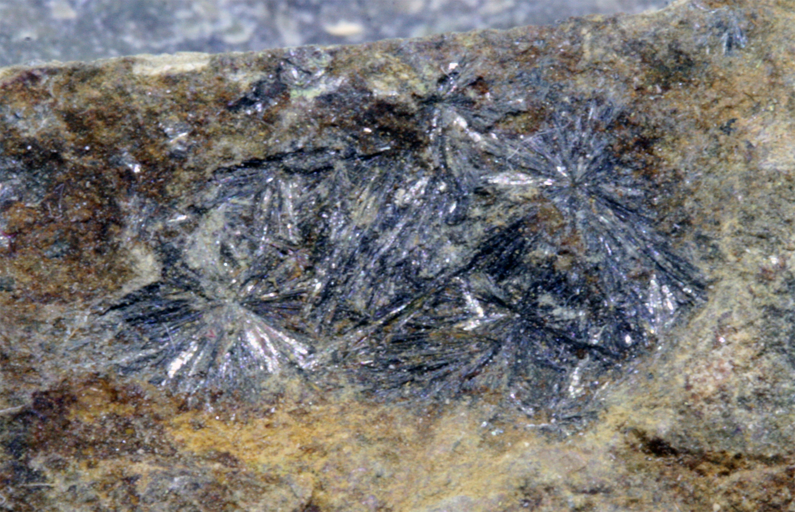 Parasymplesita and arseniosiderite. Carlés gold mine, Salas, (Asturias) Spain